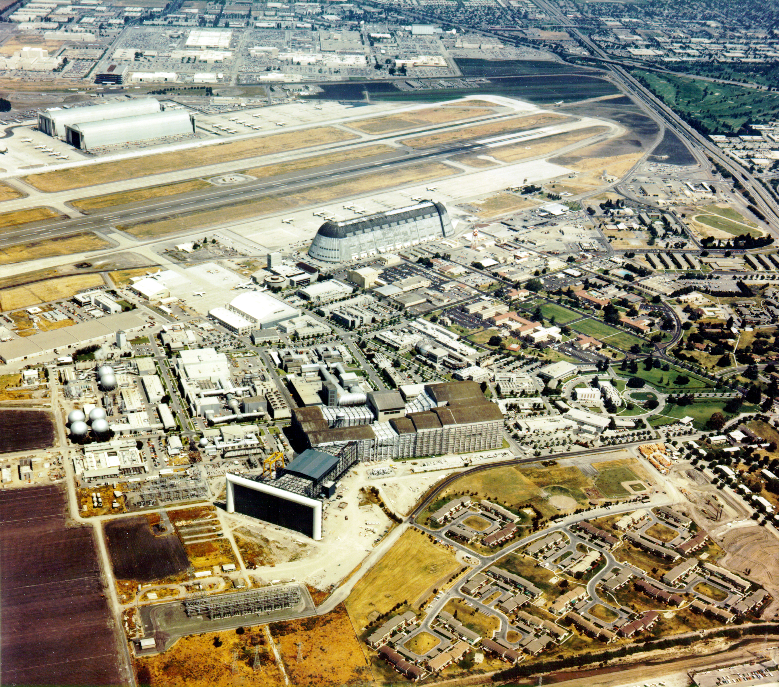 Aerial view of the NASA Ames Research Center, Mountain View, California.